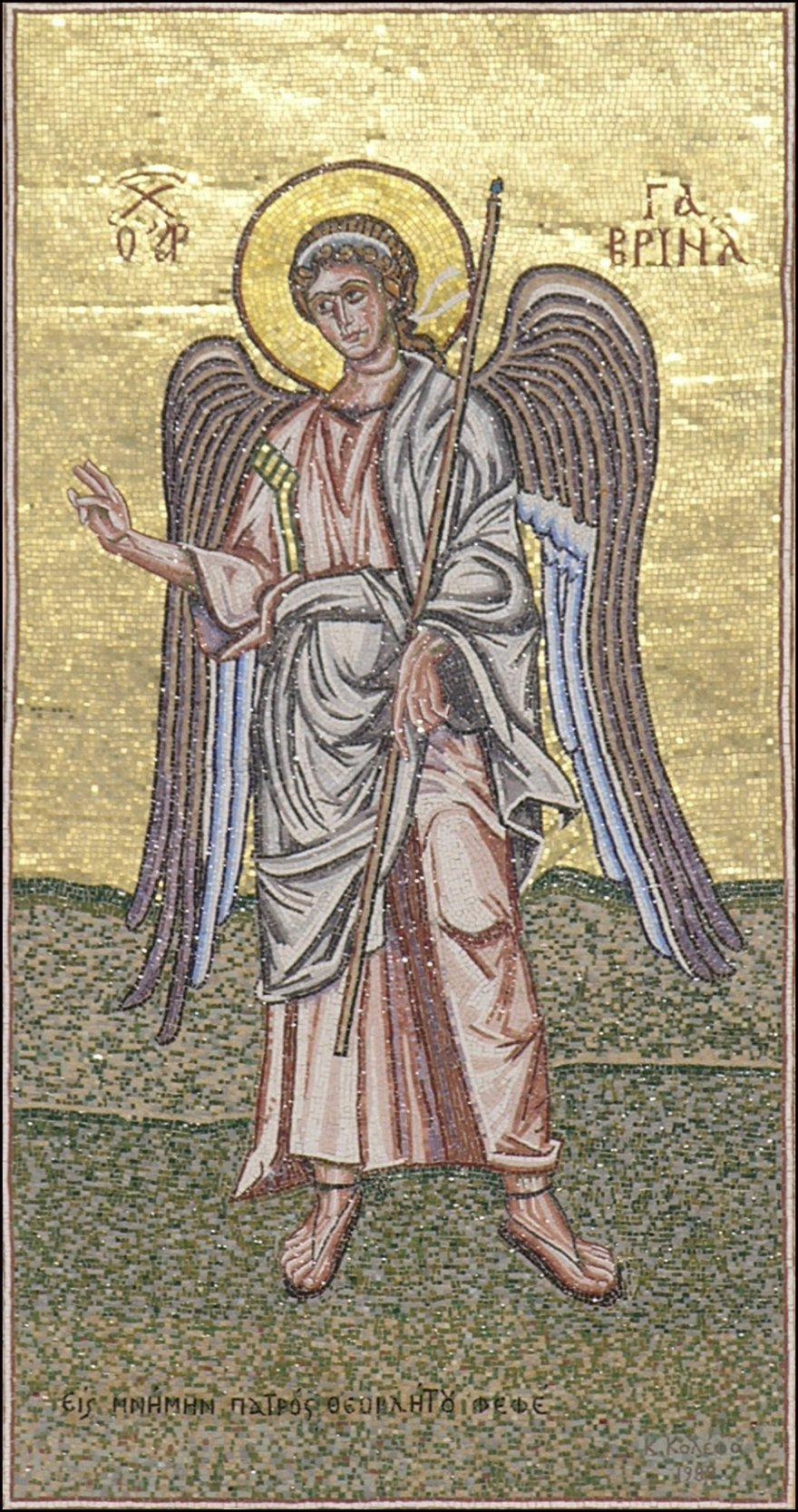 Greece, Kalavrita - Holy Cathedral of the Assumption of Virgin Mary